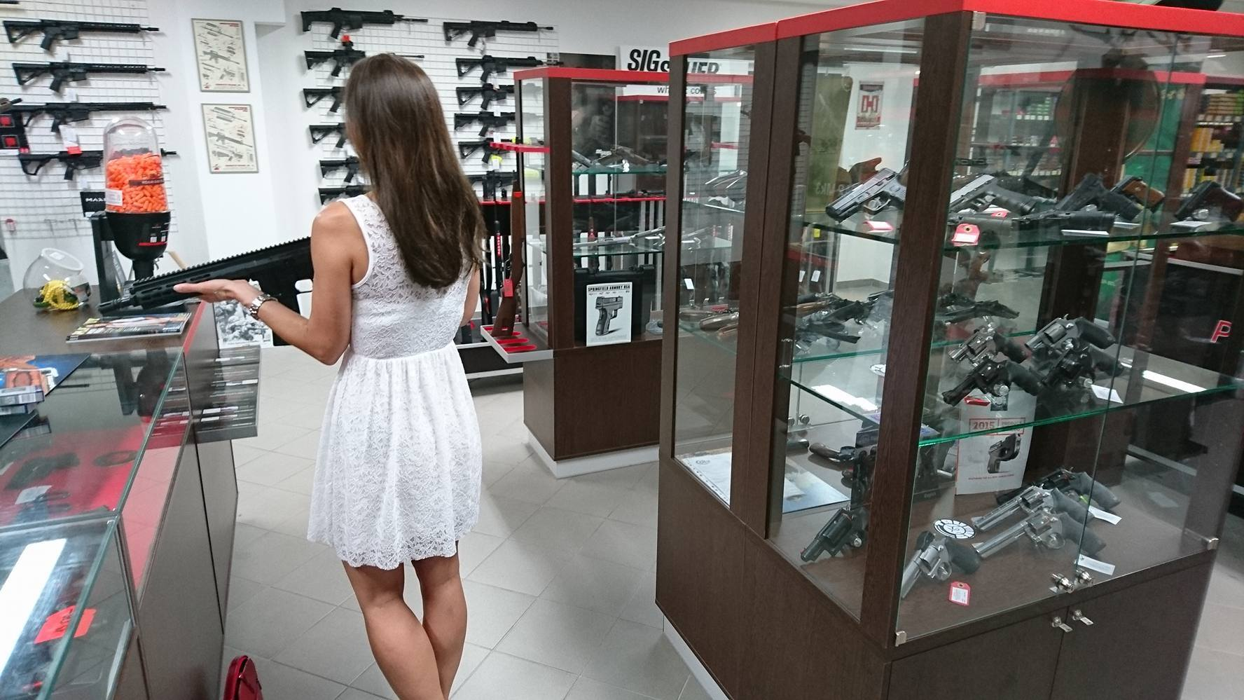 Proarms Armory gun shop in Prague, Czech Republic